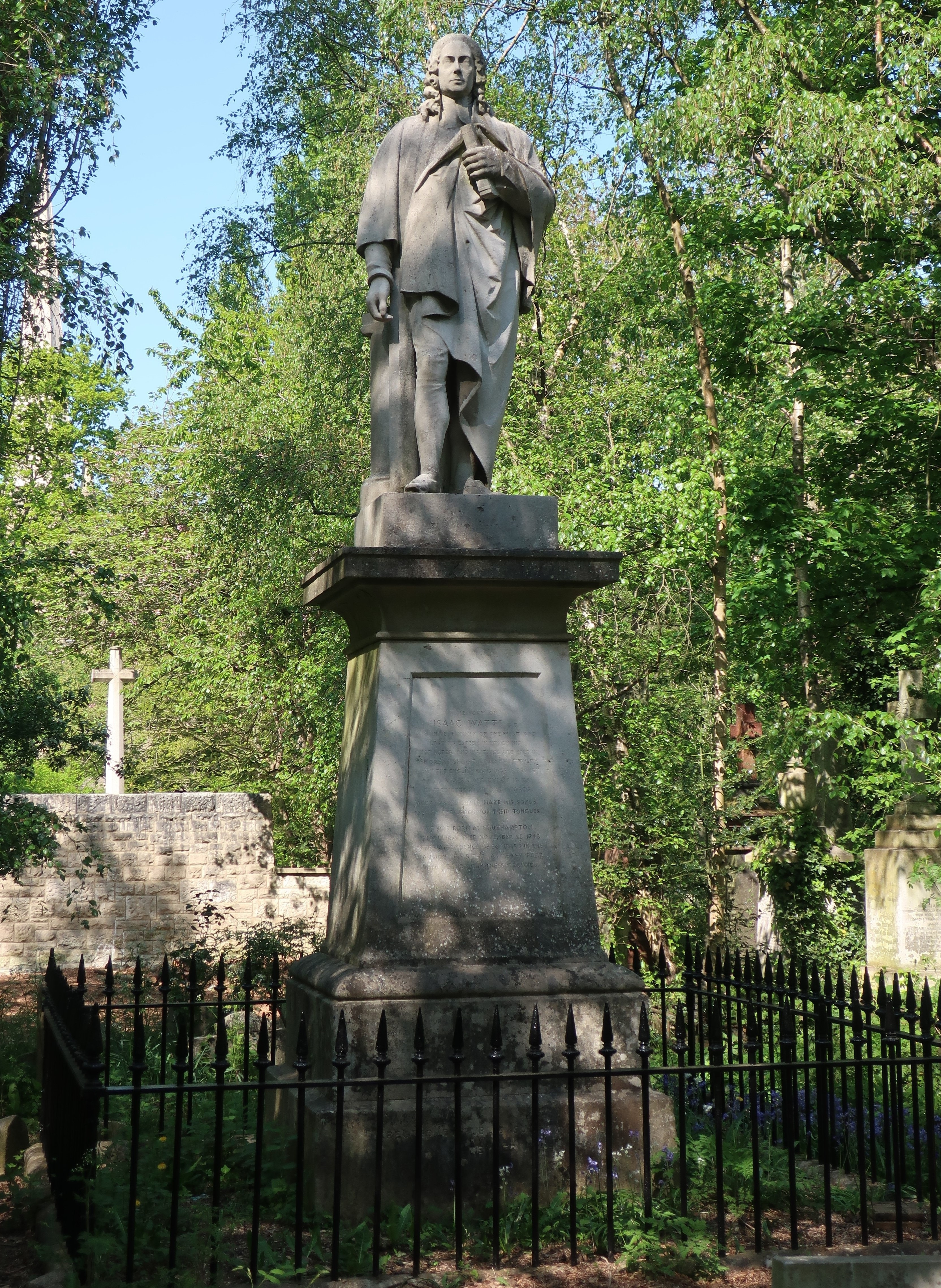 Monument to Isaac Watts (1674–1748) in Abney Park Cemetery, London N16. The Cross of Sacrifice of the War Memorial and the spire of the Central Chapel can be seen in the background.